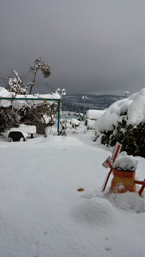 Winter 2013